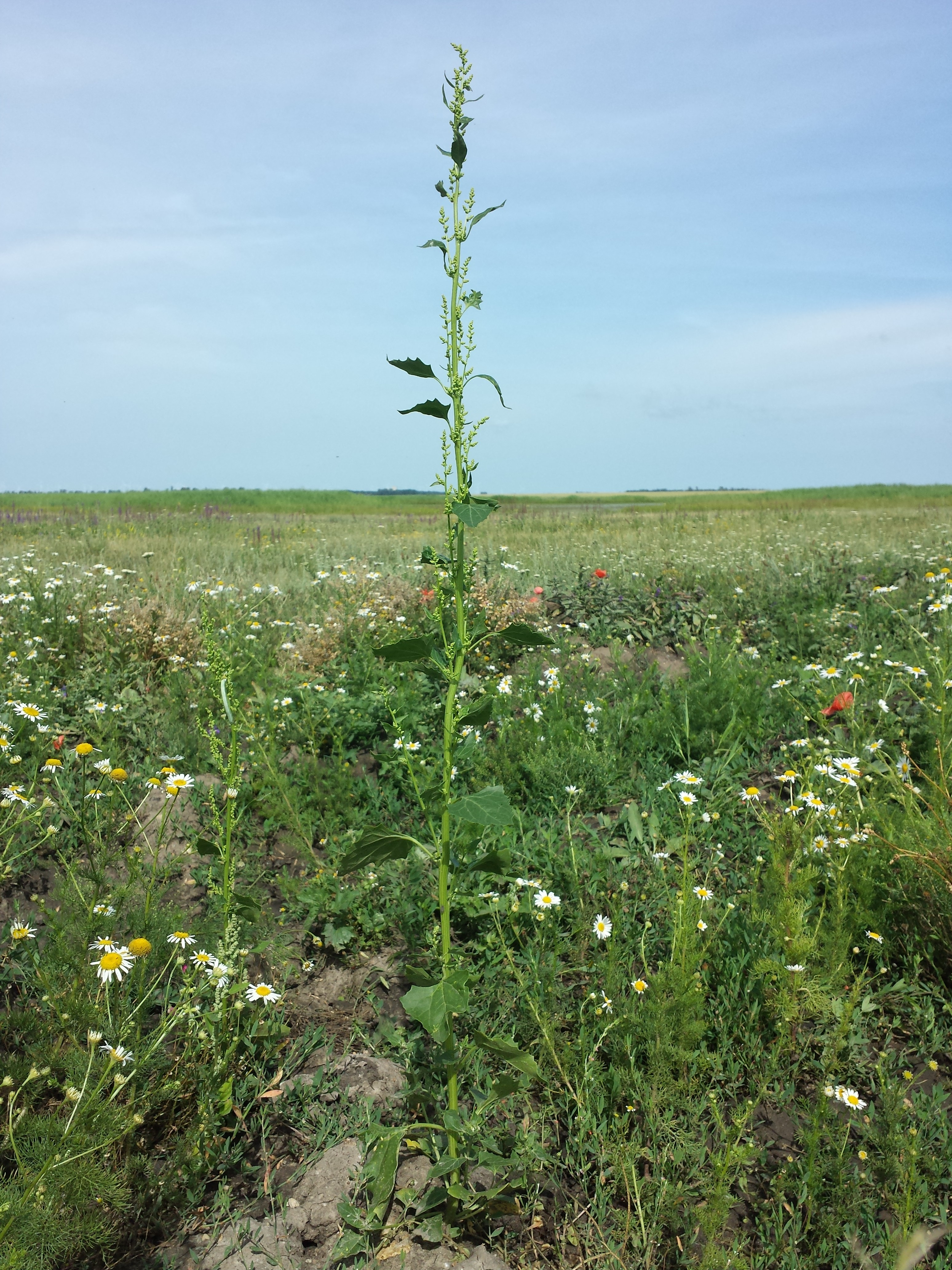 Habitus Taxonym: Chenopodium urbicum ss Fischer et al. EfÖLS 2008 ISBN 978-3-85474-187-9 Location: next to Wörtenlacke near Apetlon, district Neusiedl am See, Burgenland, Austria - ca. 120 m a.s.l. Habitat: field